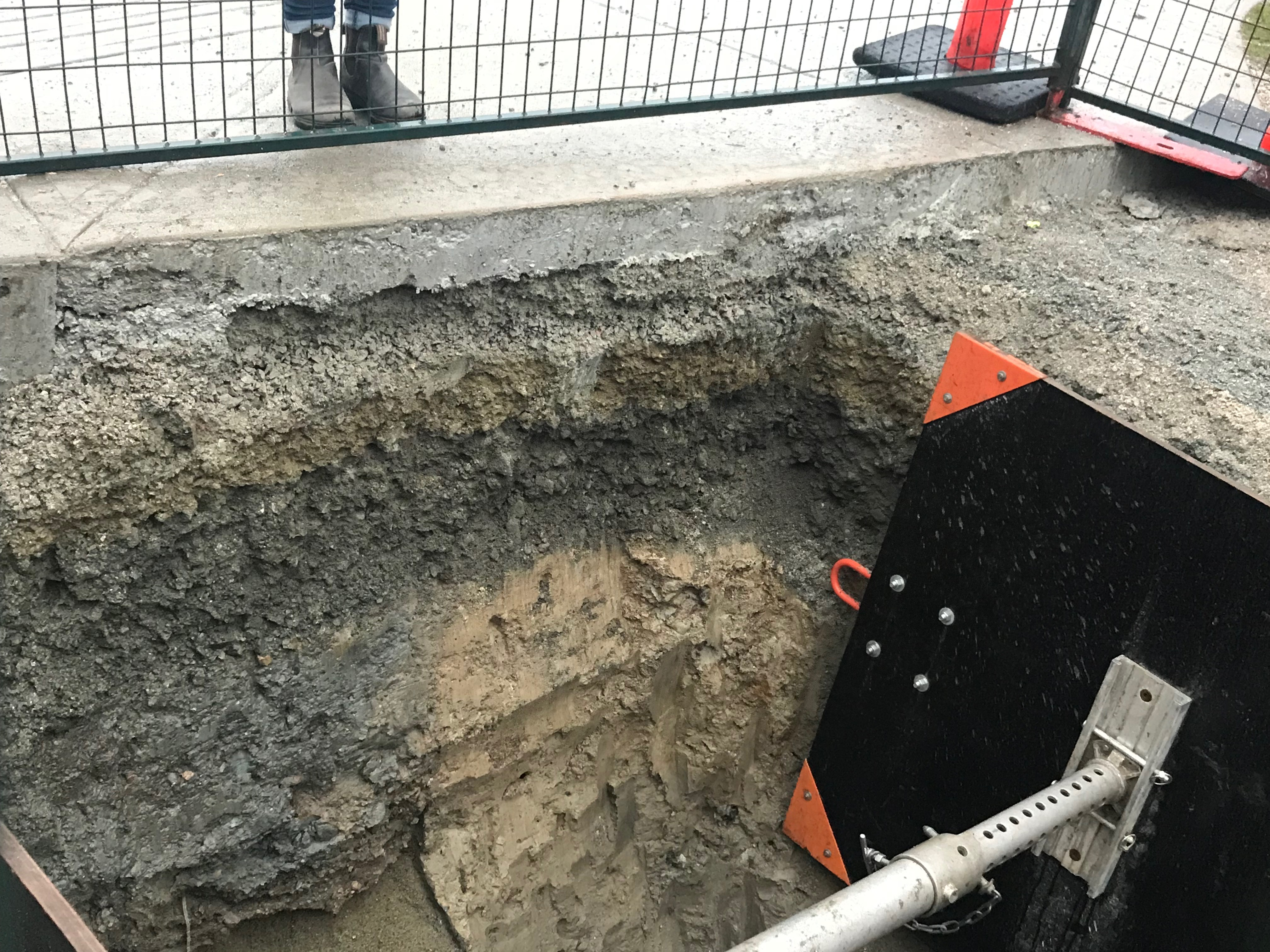 A soil section cut under a sidewalk in an urban area